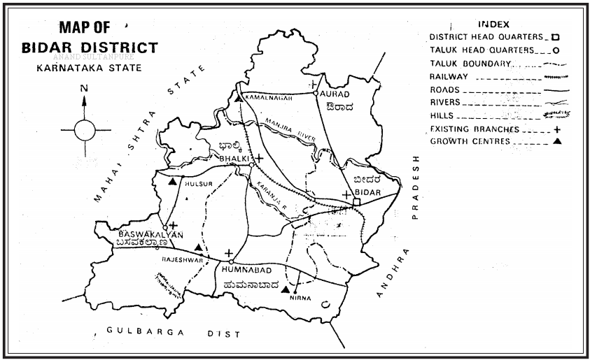 District Map showing major/important markers